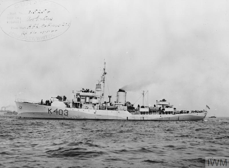 Underway, coastal waters.